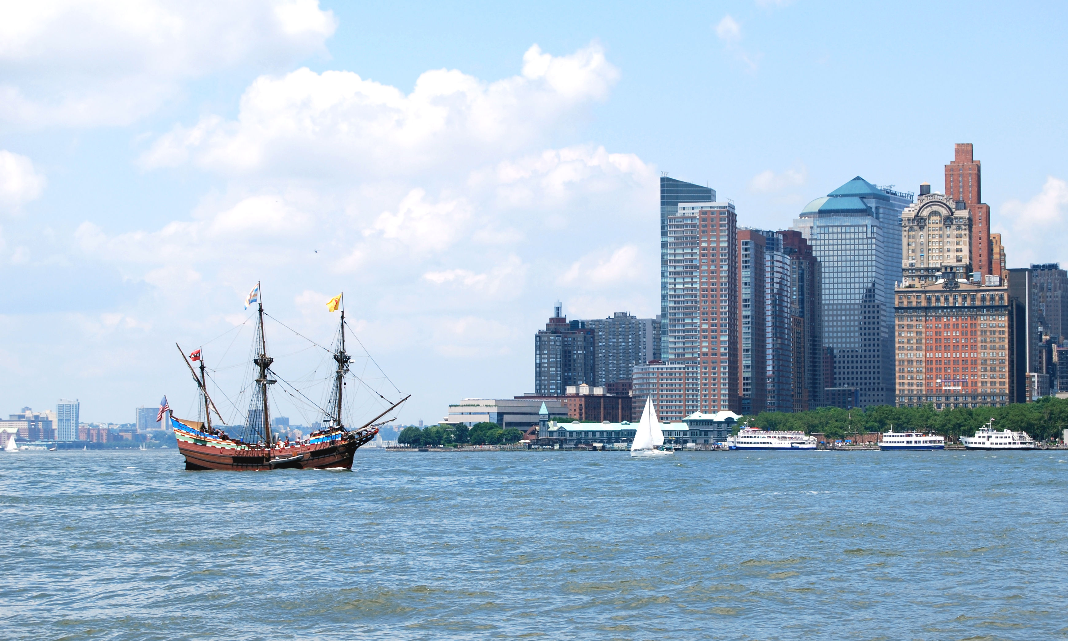 Replica of Henry Hudson's ship Halve Maen approaching the southern tip of Manhattan, 28 June 2009.